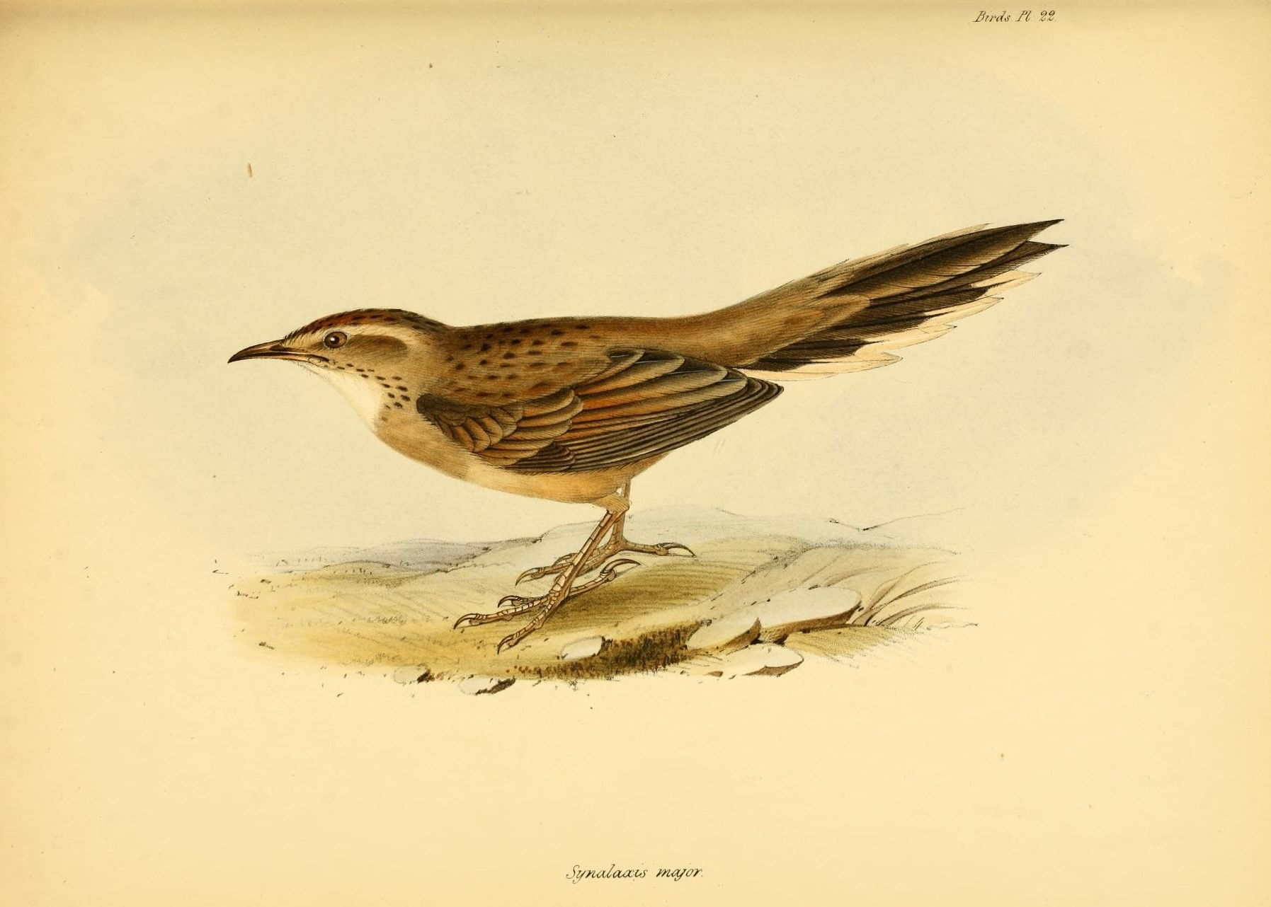 Synallaxis major = Anumbius annumbi in The zoology of the voyage of H.M.S. Beagle ... during the years 1832-1836 pt. 3 (Birds) PL.XXII